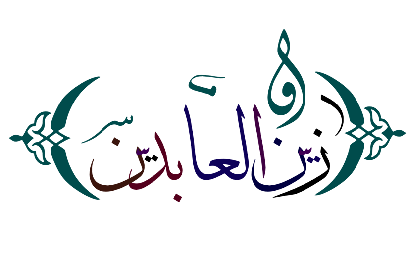 زین العابدین calligraphy